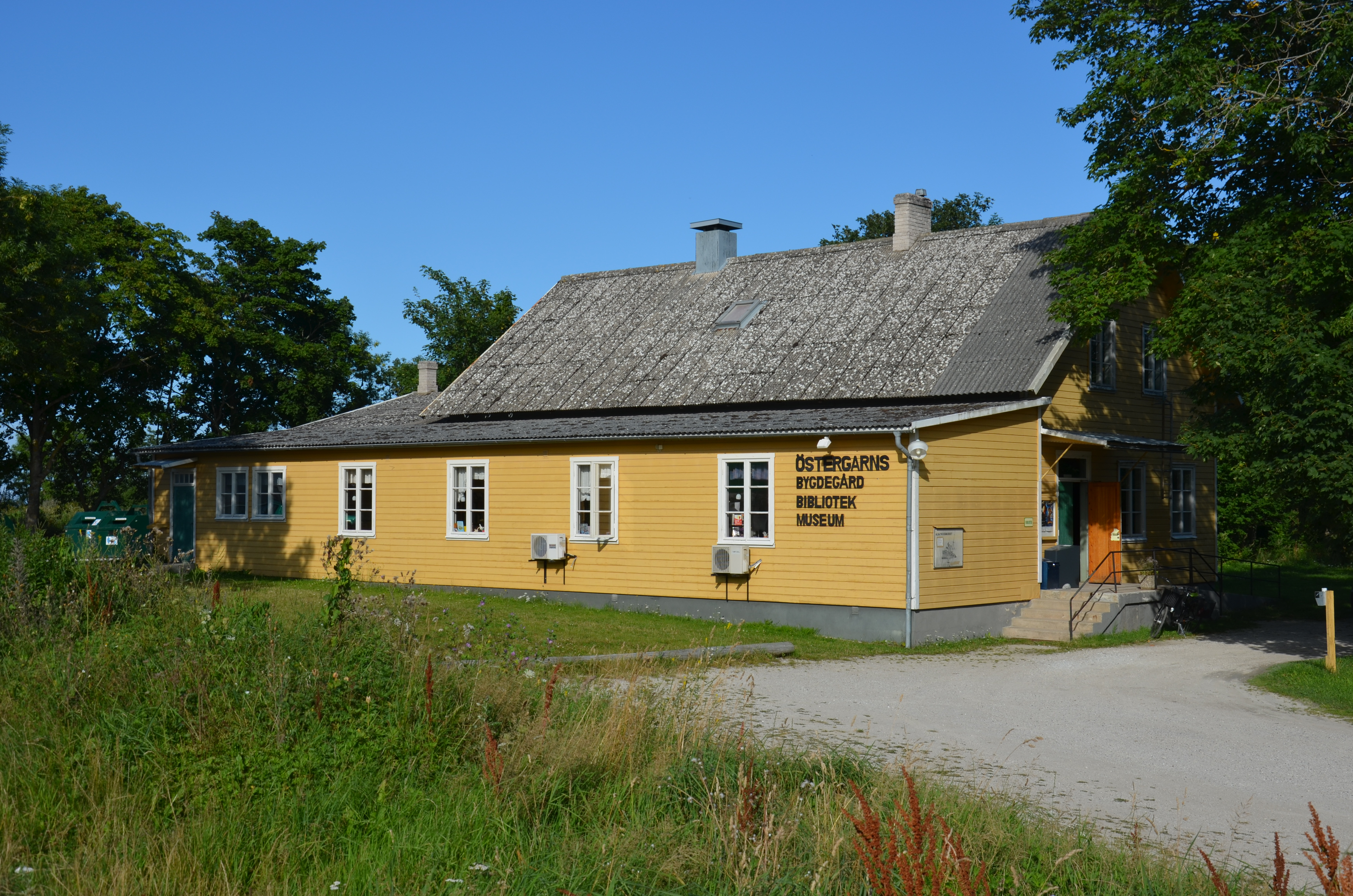 Albatrossmuseet i Katthammarsvik på Gotland